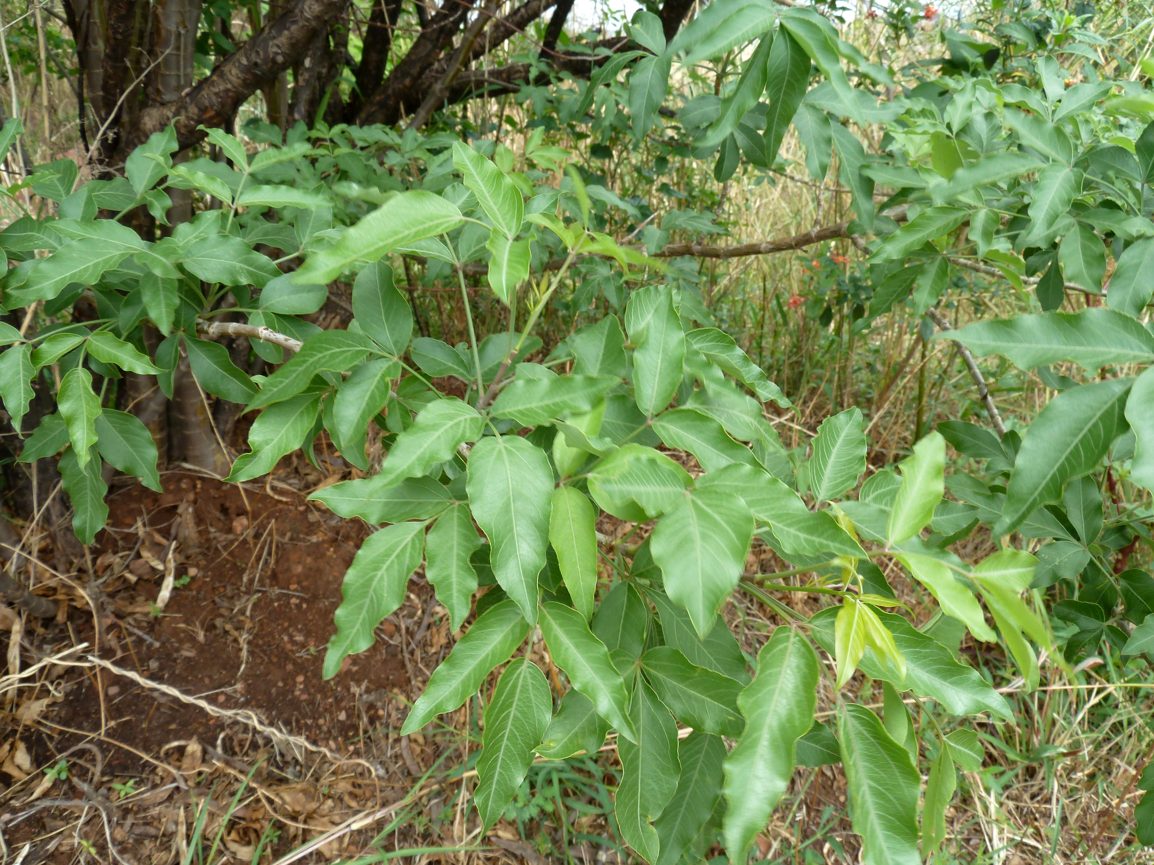 Foliage of a Parsley tree at Schanskop, Pretoria